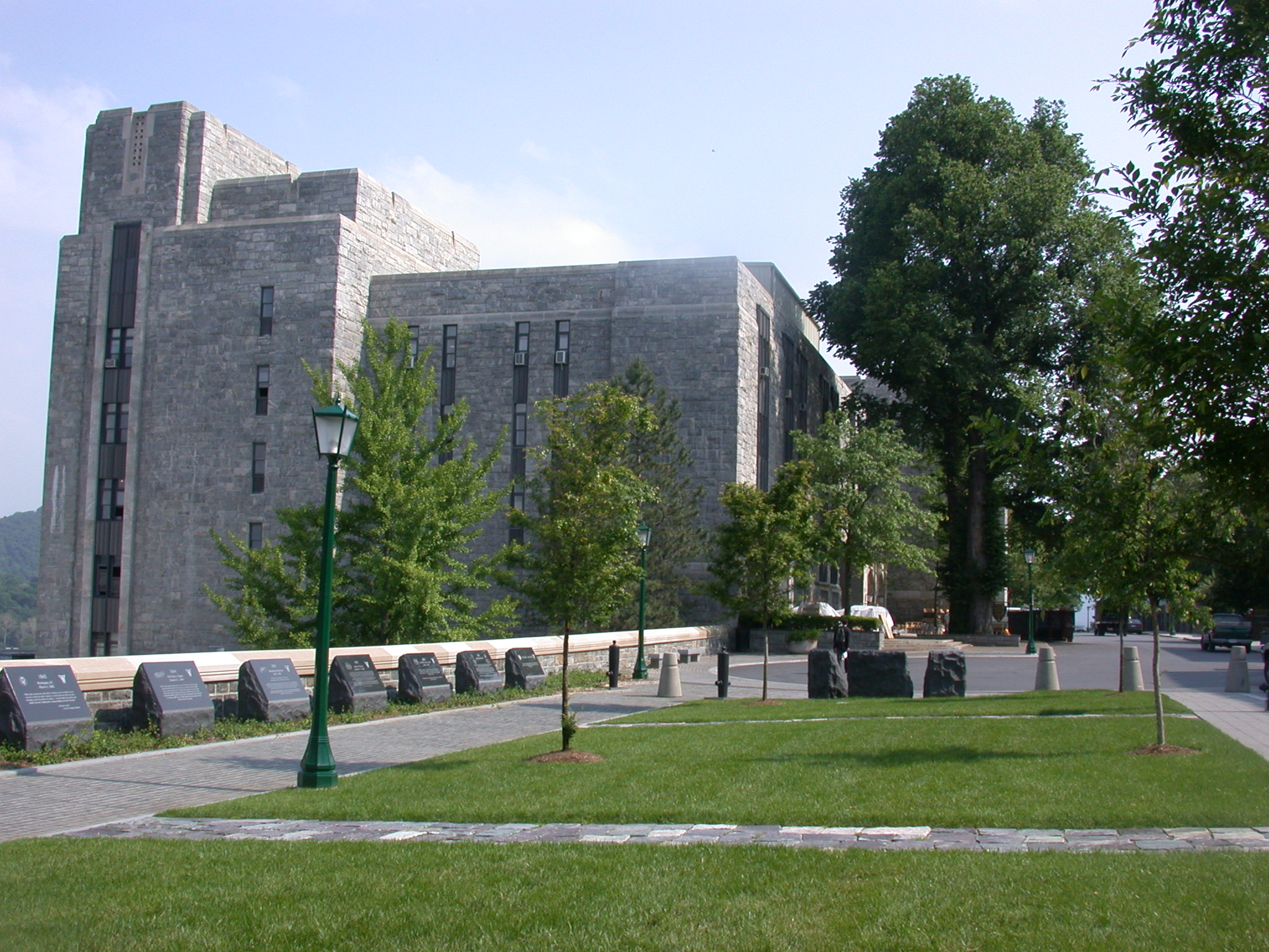 Mahan Hall, United States Military Academy June 2003. The two large American Elms can be seen in the right. They died of Dutch Elm Disease in 2004 when they were nearly 200 years old.